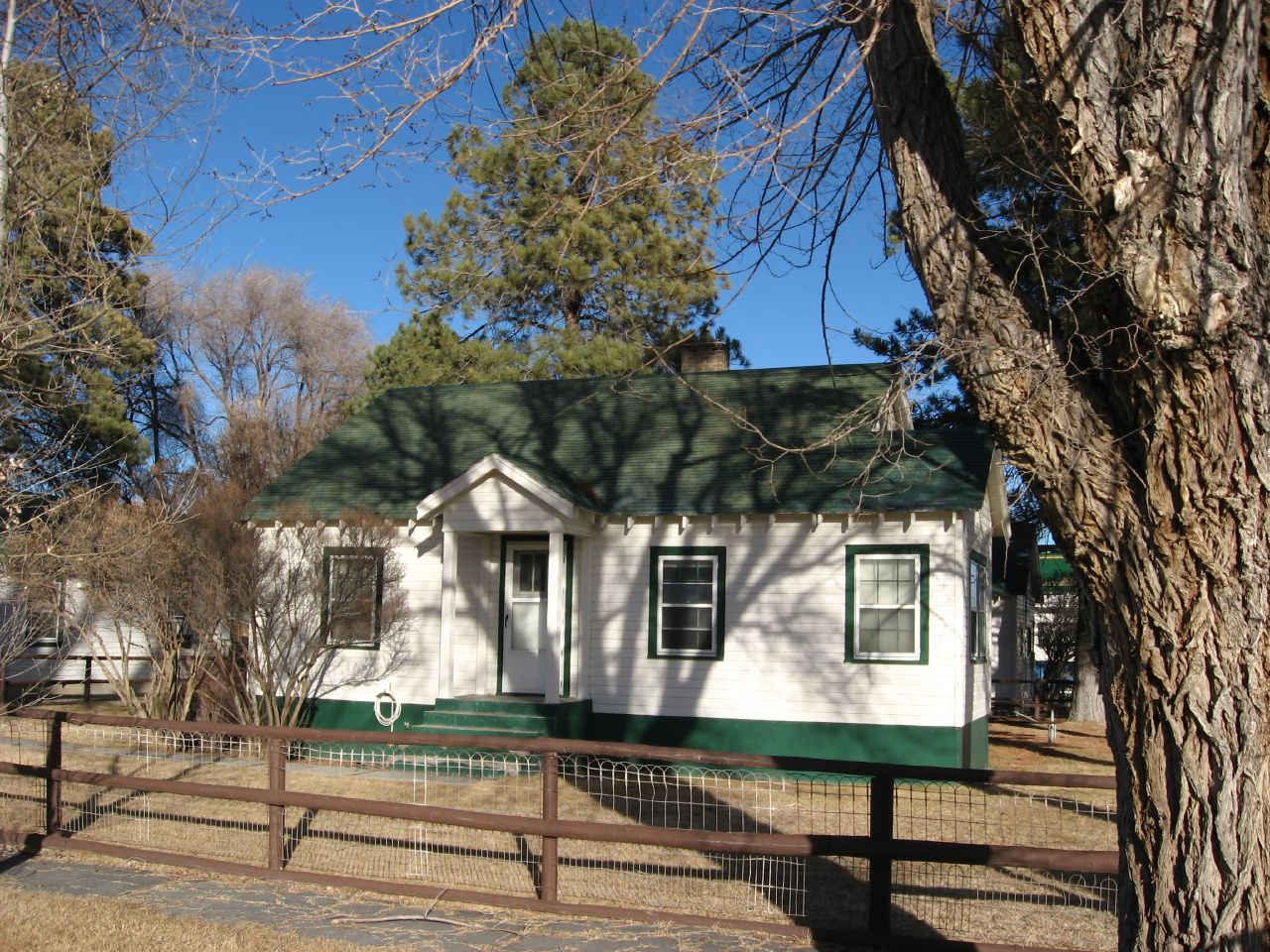 The Paradise Valley Ranger Station, Paradise Valley, Nevada, an isolated and picturesque hamlet in northern Nevada.